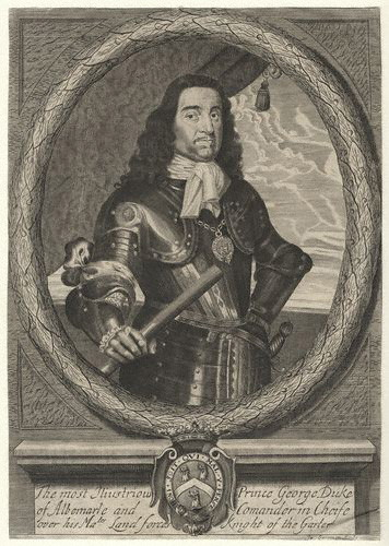 George Monck, 1st Duke of Albemarle (1608-1670)